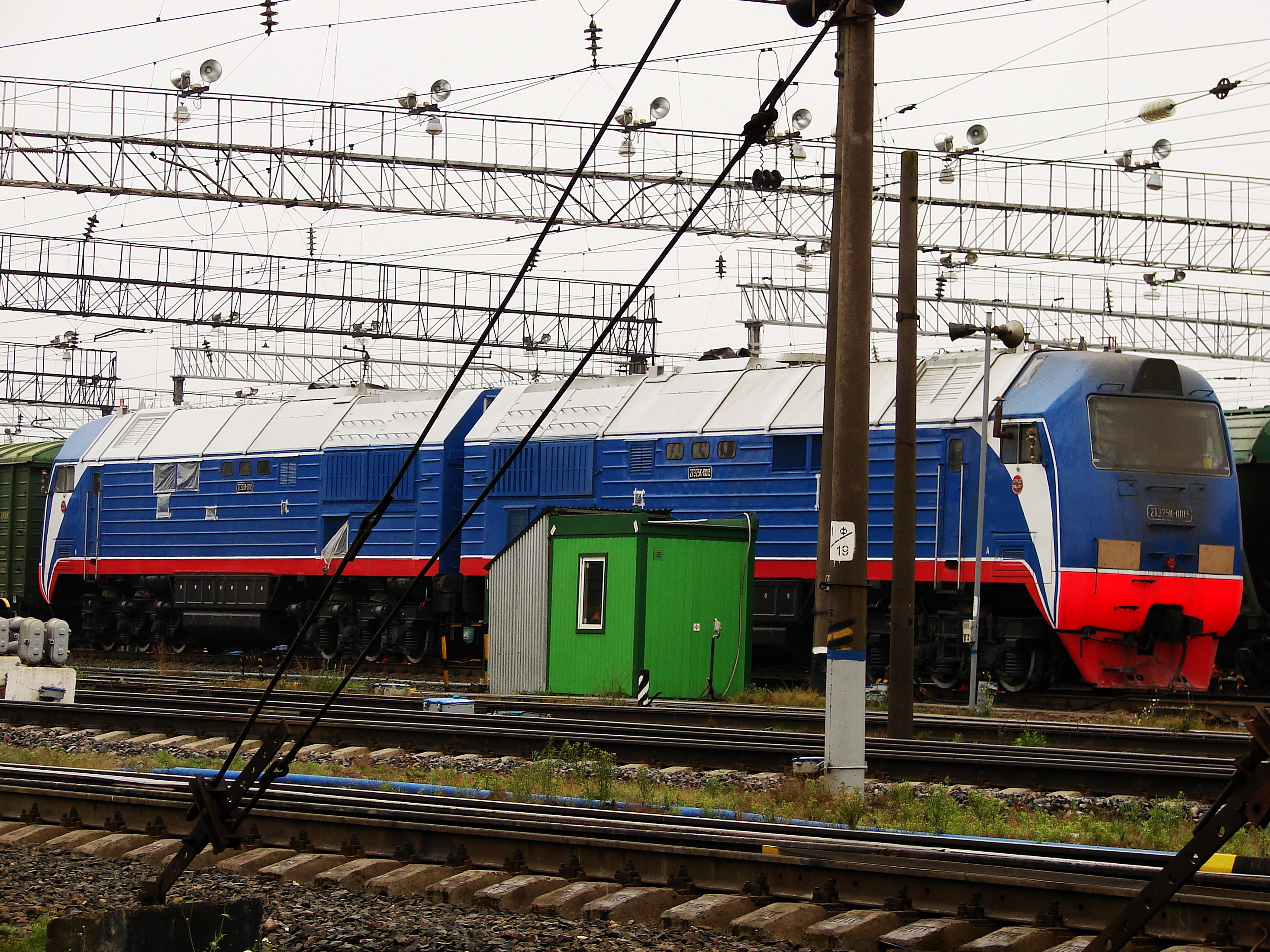 Russian Railways, Diesel locomotive 2TE25K-0013 «Peresvet»